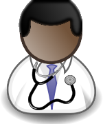 Doctor Image (Different Version)